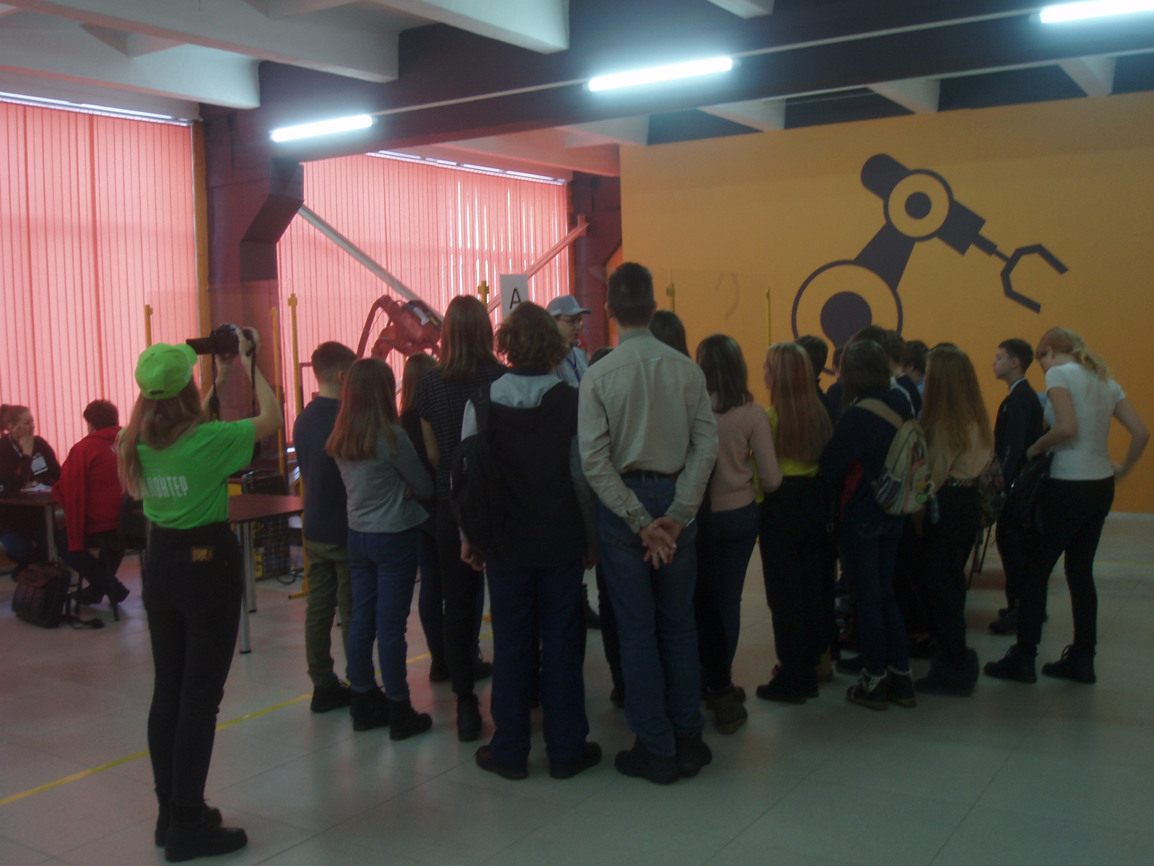 regional chempionat worldskills